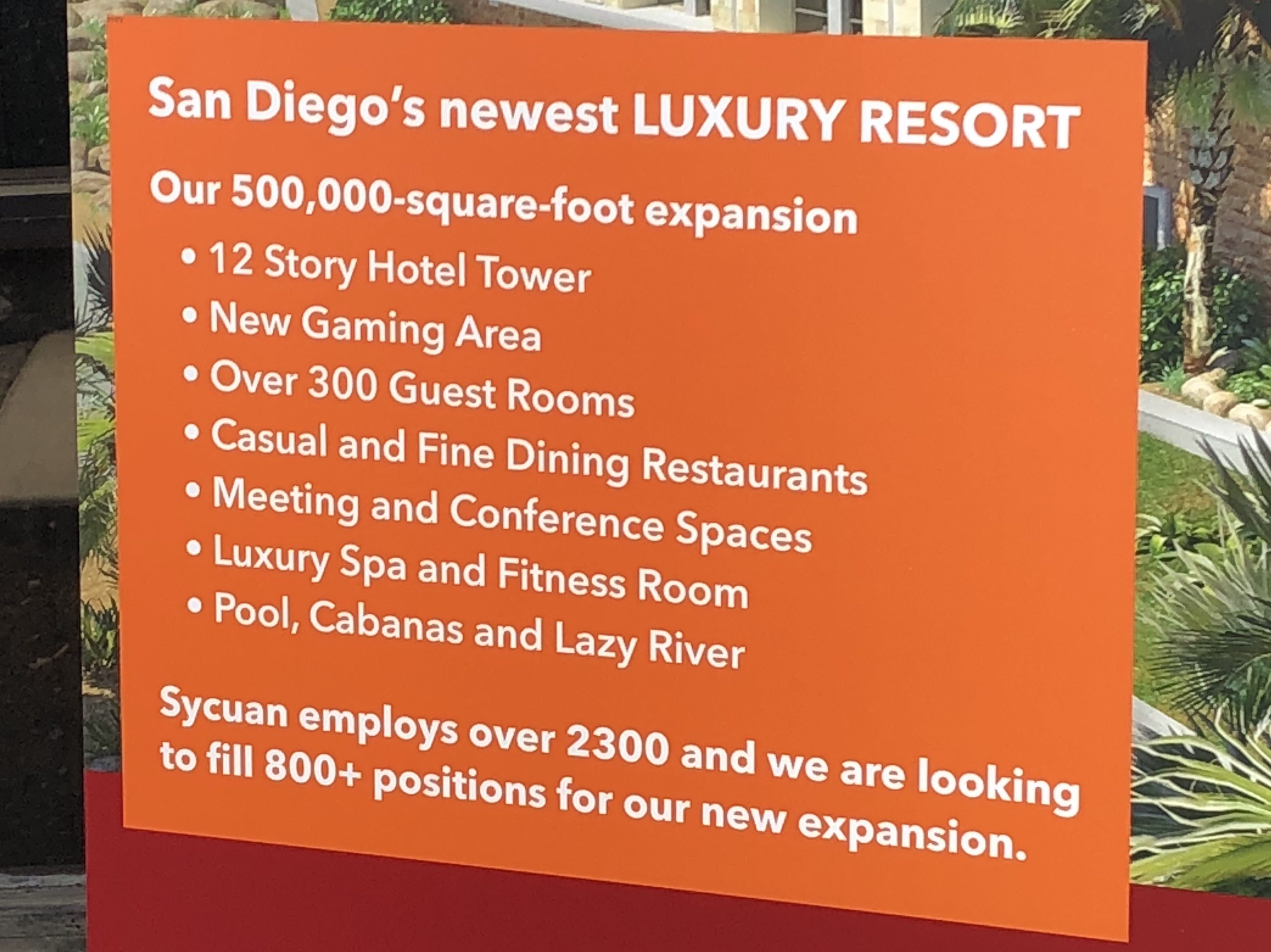 Sign displayed by Sycuan Casino.